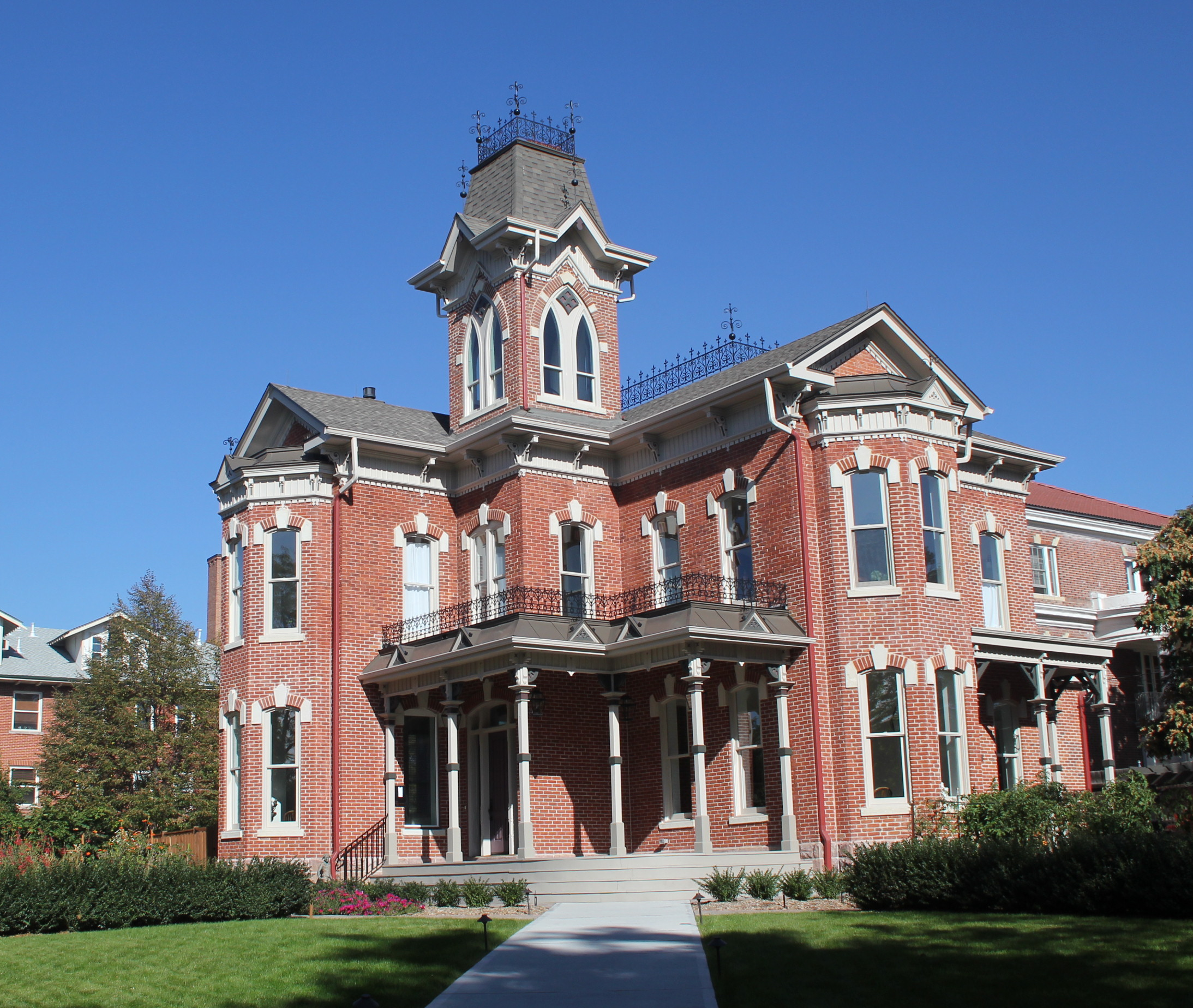 Bosler-Yankee house in Denver, CO. Photo by Paul C. Cloyd Object location39° 45′ 48.98″ N, 105° 01′ 41.44″ W View all coordinates using: OpenStreetMap - Google Earth